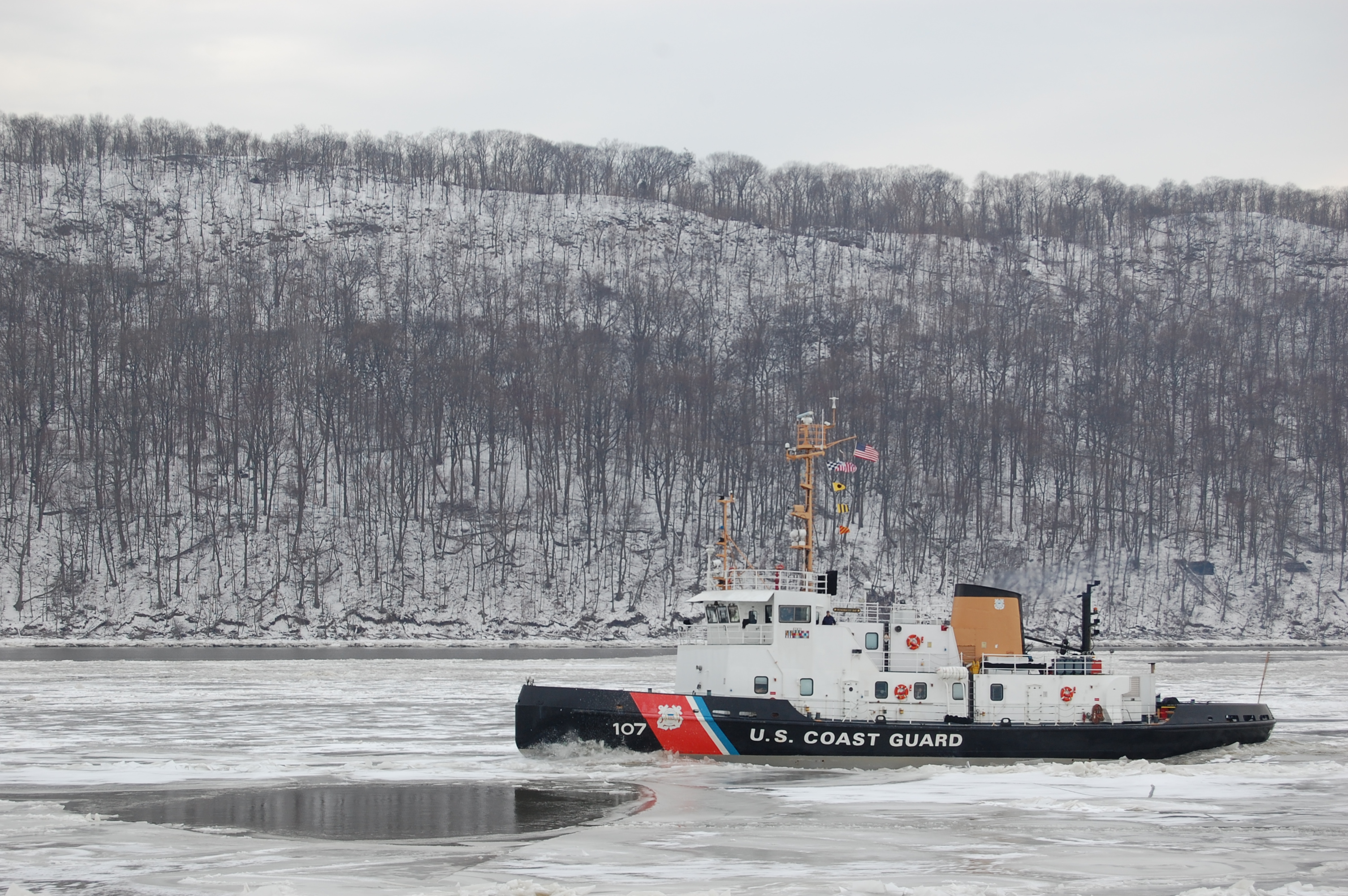 USCGC Penobscot Bay (WTGB 107) on the Hudson River.